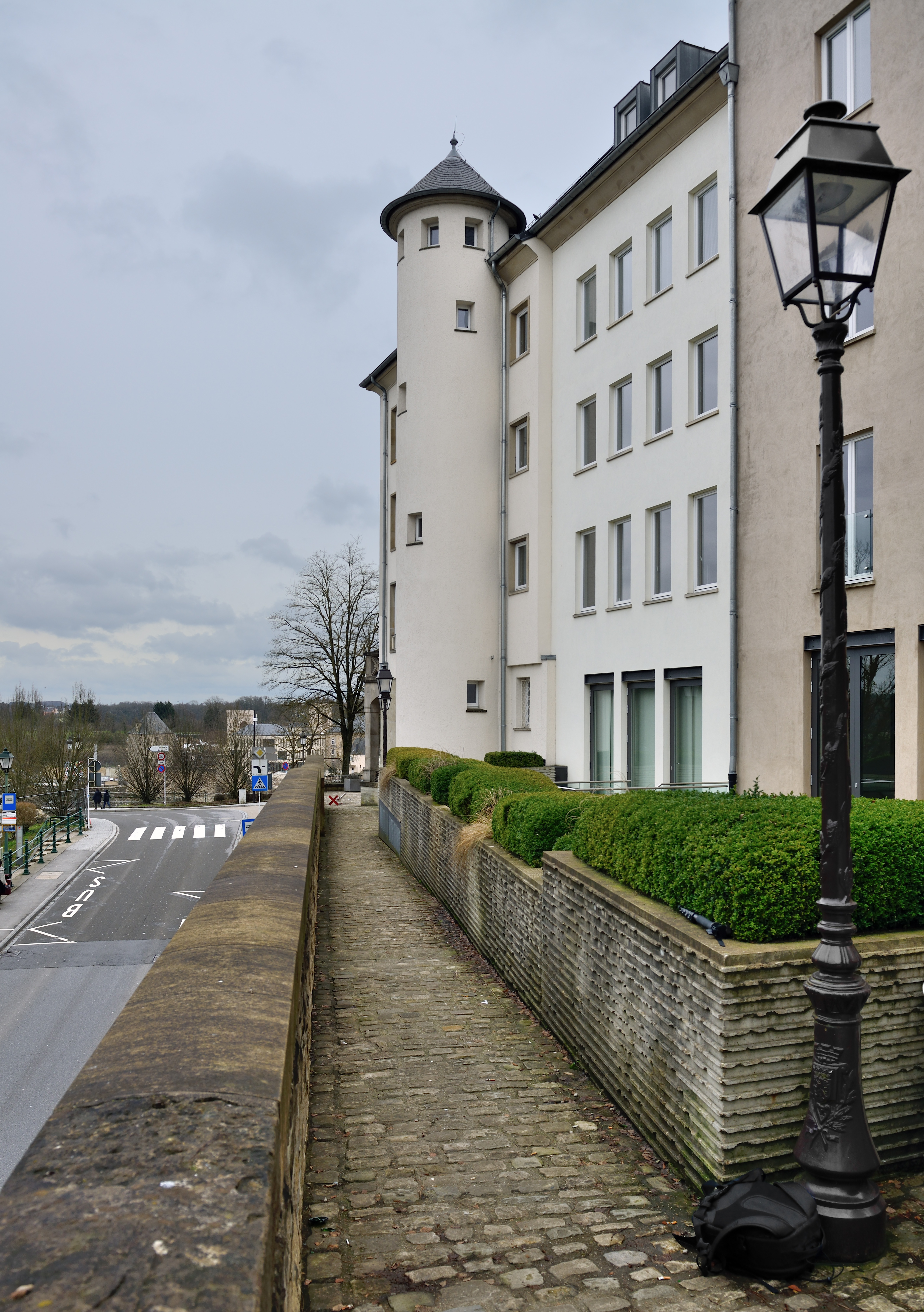 Luxembourg City: walk on the curtain wall of the ancient fortress. At the left: boulevard Victor Thorn. At the right: the Conseil d'État building.